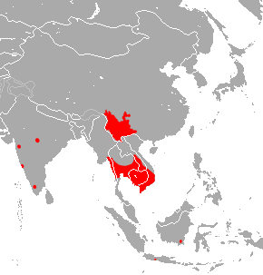 Theobald's Tomb Bat (Taphozous theobaldi) range